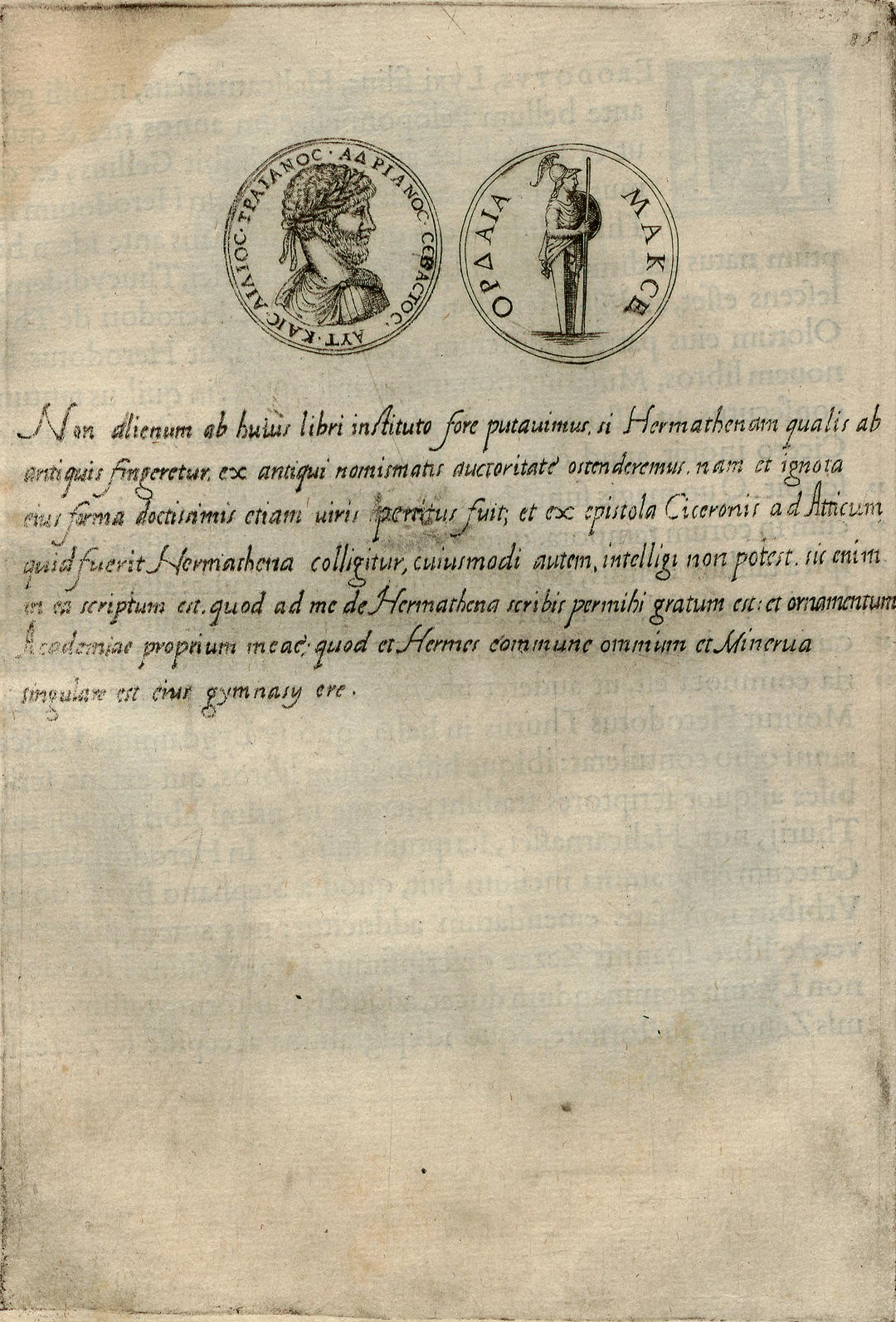 An engraving depicting Hermathena, 85.